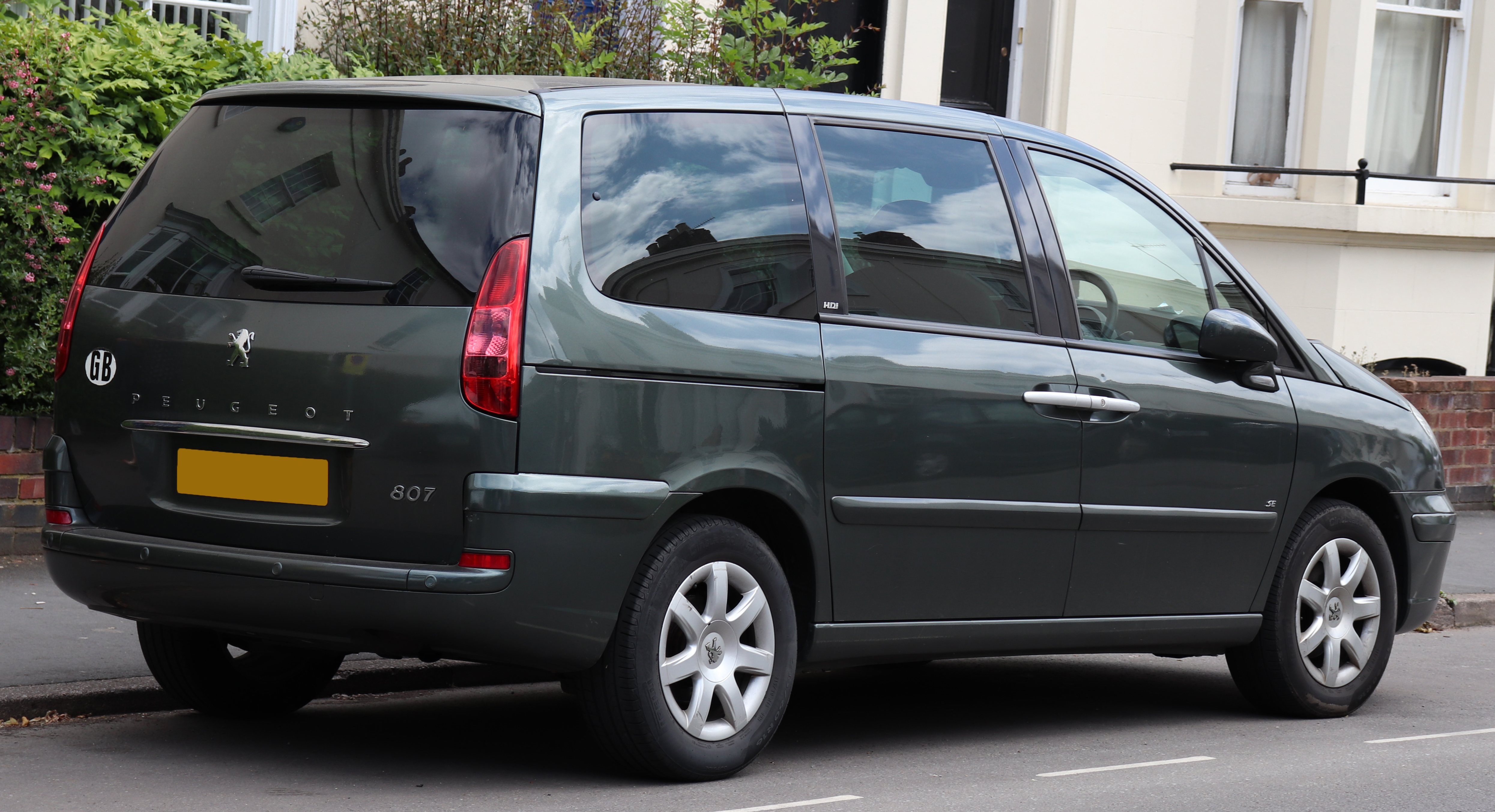 2006 Peugeot 807 SE HDi 2.0 Rear Taken in Leamington Spa